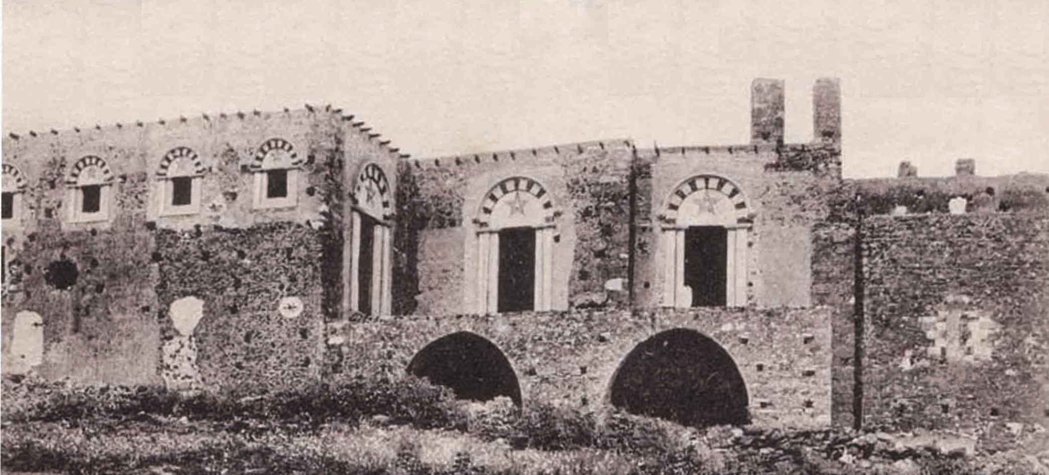 Anastilosi realizzata nel 1907 del convento di San Francesco alla Collina di Paternò dal barone Gioacchino Cara Zuccaro. L'edificio, rovinato dal sisma del 1908, oggi non esiste più.